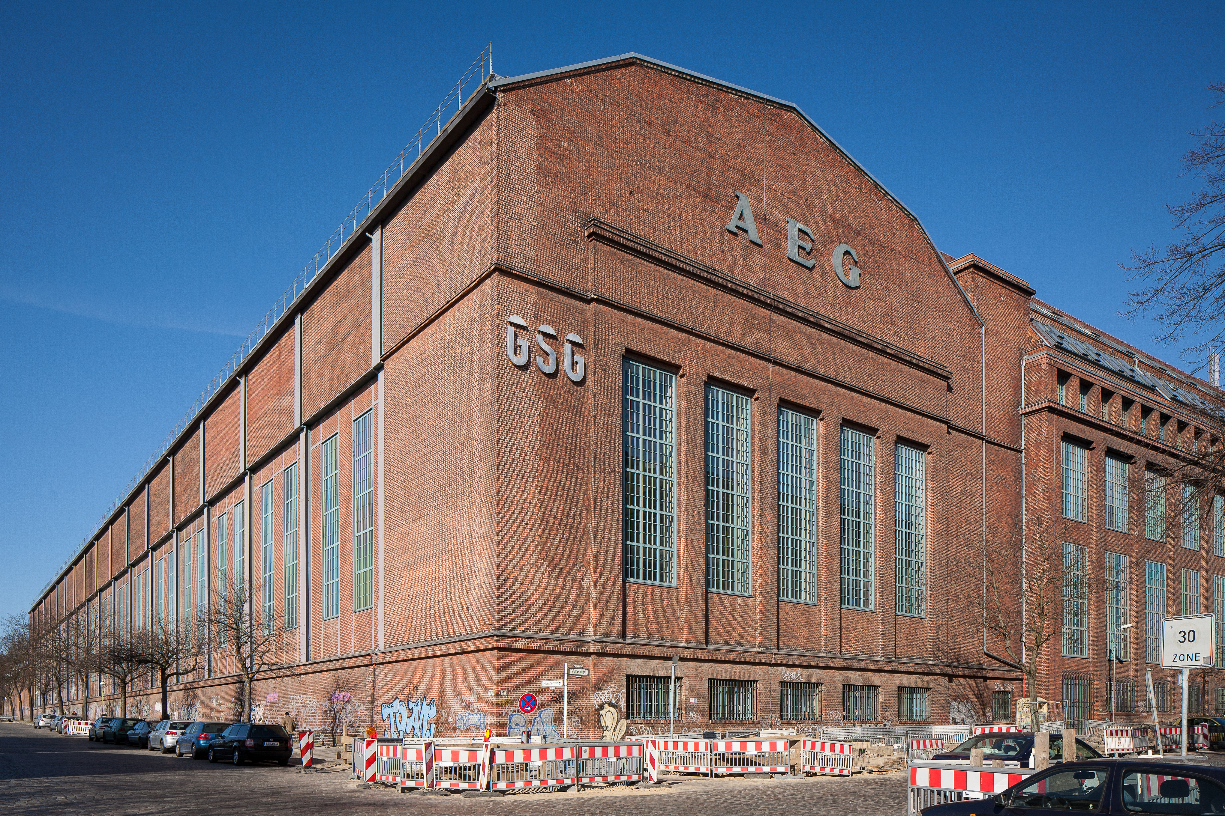 Part of the former AEG factory located in Berlin Gesundbrunnen, Germany. The building was used as a assembly hall for large devices.